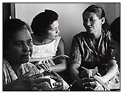 Edris Rice-Wray M.D. Consulting Medically people with low income